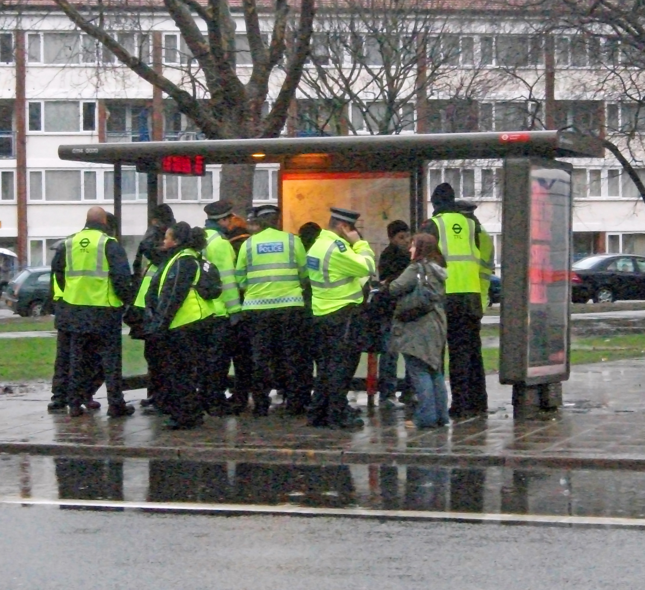 Government cuts lead to a shortage of police cars? Spotted at the junction of Green Lanes and West Green Road, near Turnpike Lane station.